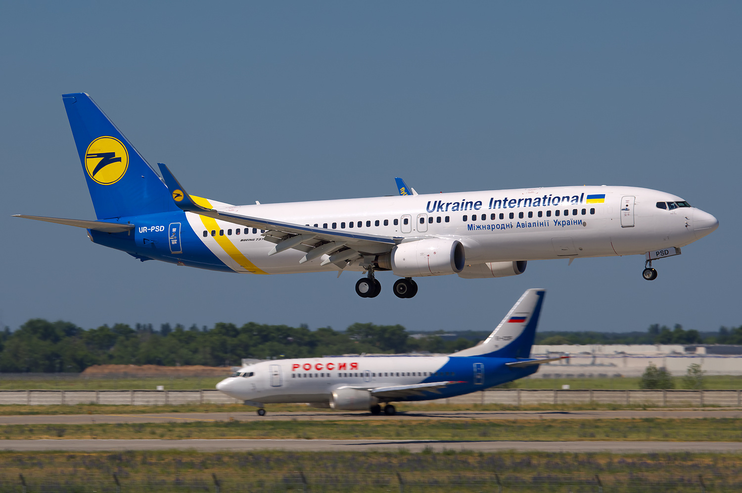 A Ukraine International Airlines 737 lands at Kiev's Boryspil International Airport